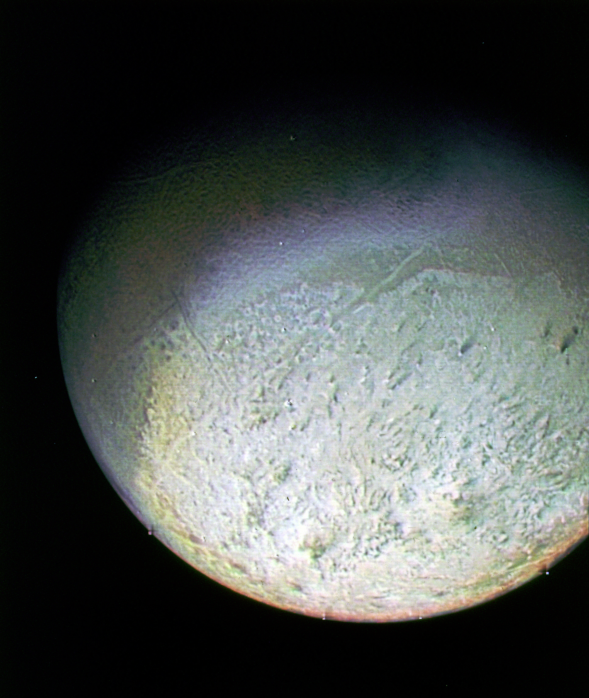 This color photo of Neptune's large satellite Triton was obtained on Aug. 24 1989 at a range of 530,000 kilometers (330,000 miles). The resolution is about 10 kilometers (6.2 miles), sufficient to begin to show topographic detail. The image was made from pictures taken through the green, violet and ultraviolet filters. In this technique, regions that are highly reflective in the ultraviolet appear blue in color. In reality, there is no part of Triton that would appear blue to the eye. The bright southern hemisphere of Triton, which fills most of this frame, is generally pink in tone as is the even brighter equatorial band. The darker regions north of the equator also tend to be pink or reddish in color. JPL manages the Voyager project for NASA's Office of Space Science, Washington, DC.